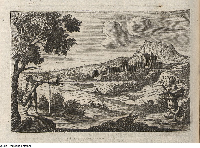 Engraving showing a man (A, left) using a megaphone (B) to amplify his voice to communicate over distance to another man (C). German Jesuit scientist Athanasius Kircher (1602-1680) is one of several people credited with developing the acoustic megaphone.